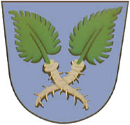 Coat of arms of Křenovice (Přerov District).